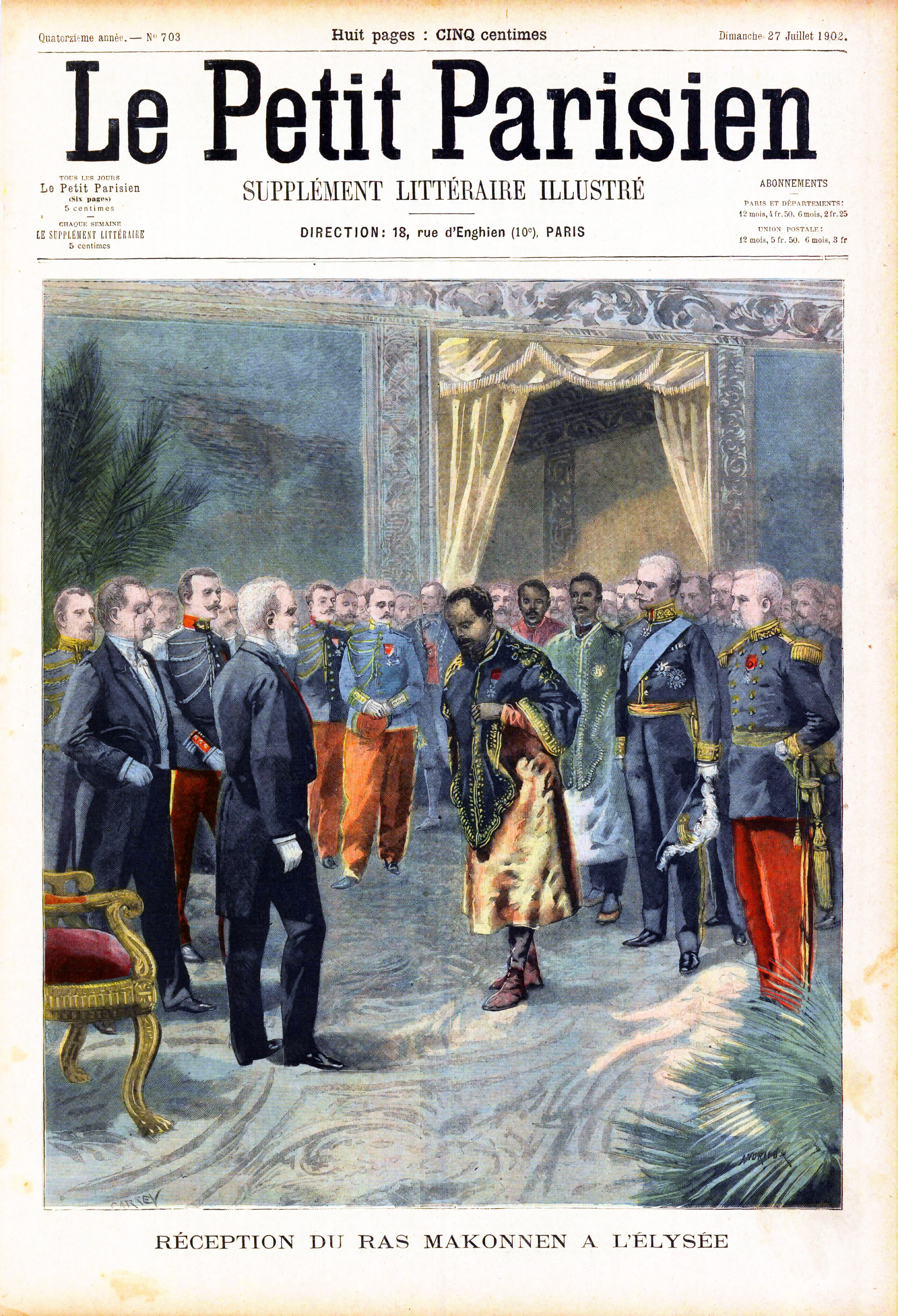 Ras Makonnen at the Élysée Palace in France (1902) - Le Petit Parisien, July 27 1902